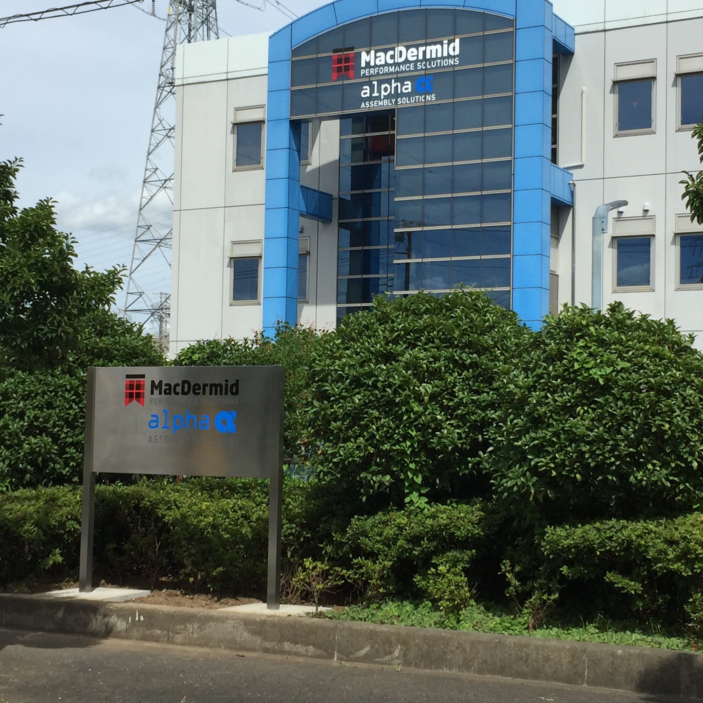 Exterior of the MacDermid Performance Solutions facility in Hiratsuka City, Japan